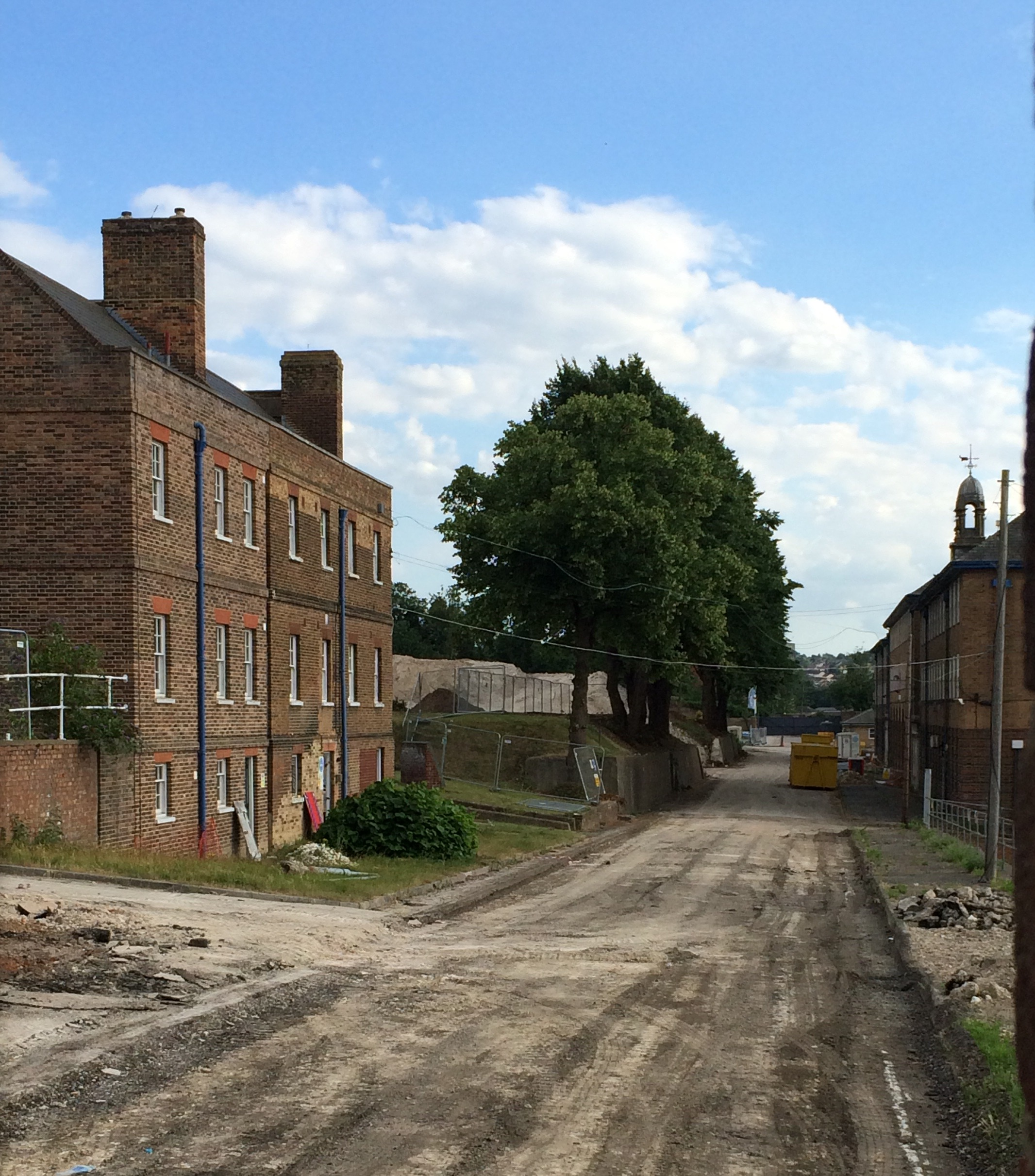 Kitchener Barracks, Chatham: Grade II listed surviving former barrack block from the original Infantry Barracks of 1757